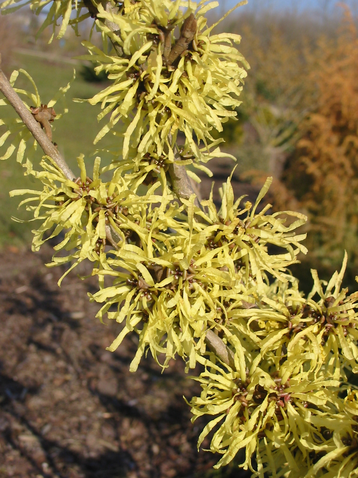 Hamamelis x intermedia Rehd. 'Angelly' Hamamelis Japonica x Hamamelis Mollis Photo taken in the botanical gareden of Eeklo